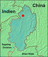 Position of Putao